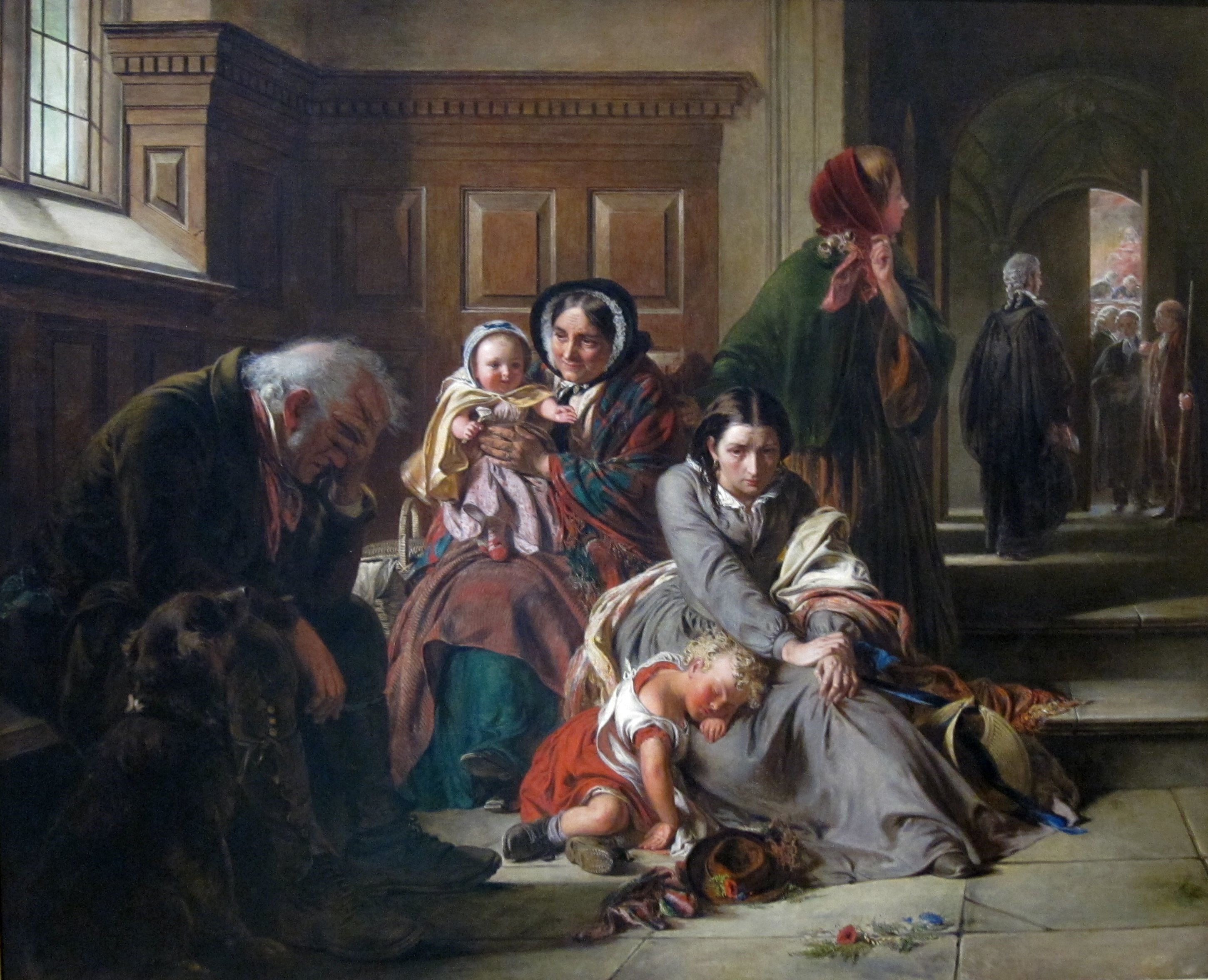 Waiting for the Verdict, oil painting on canvas by Abraham Solomon, 1859, Getty Center